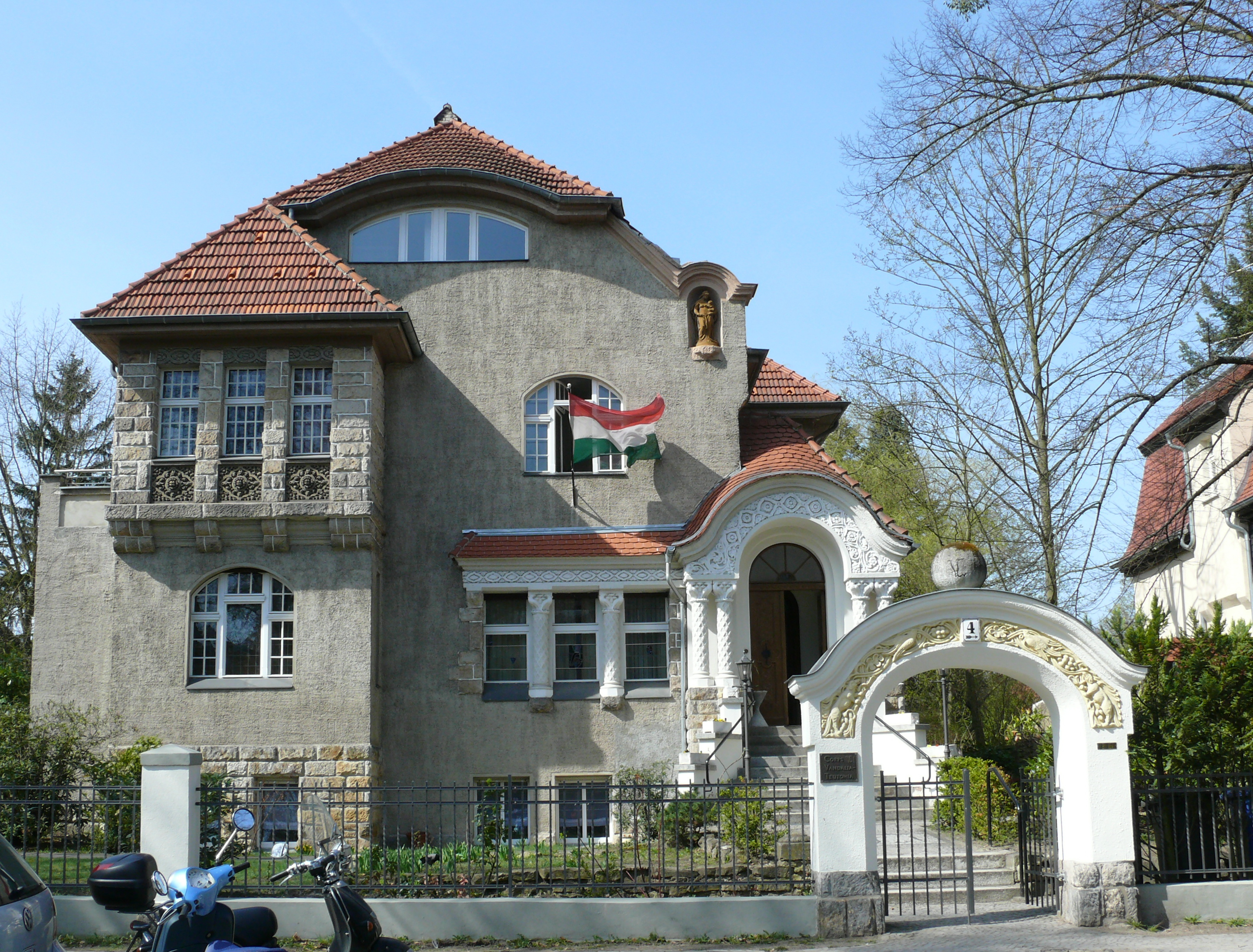 Berlin-Zehlendorf Riemeisterstraße 4 Corps Vandalia-Teutonia